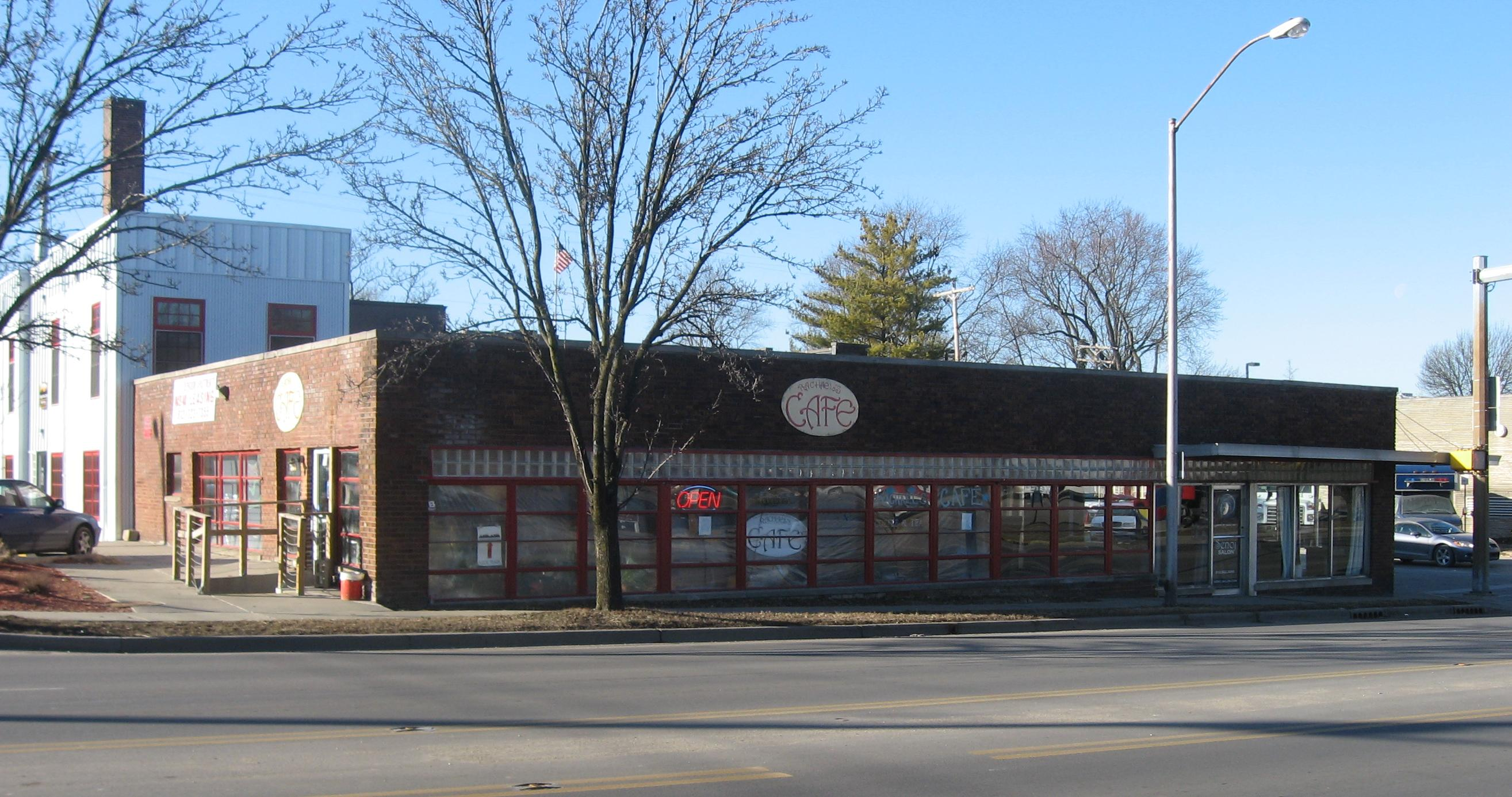 Front of the Home Laundry Company, located at 300 E. Third Street in Bloomington, Indiana, United States. Built in 1922, it is listed on the National Register of Historic Places.